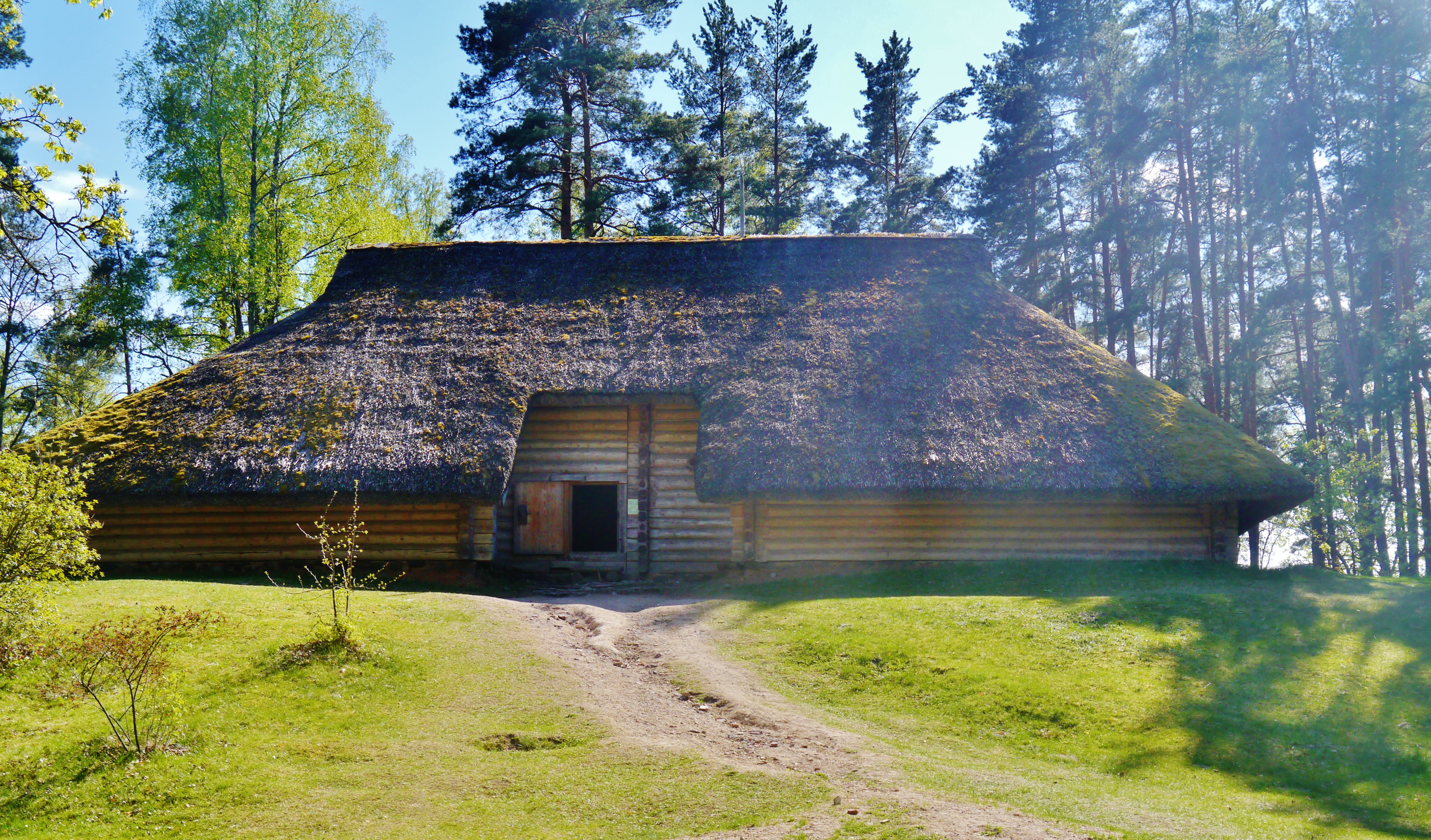 Latvian threshing barn built in 1750 at "Rizgas", Vestiena parish, Vidzeme, currently located at the Latvian Ethnographic Open Air Museum